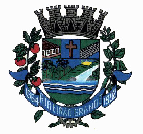 Coat of arms of the city of Ribeirão Grande, State of São Paulo, Brazil.